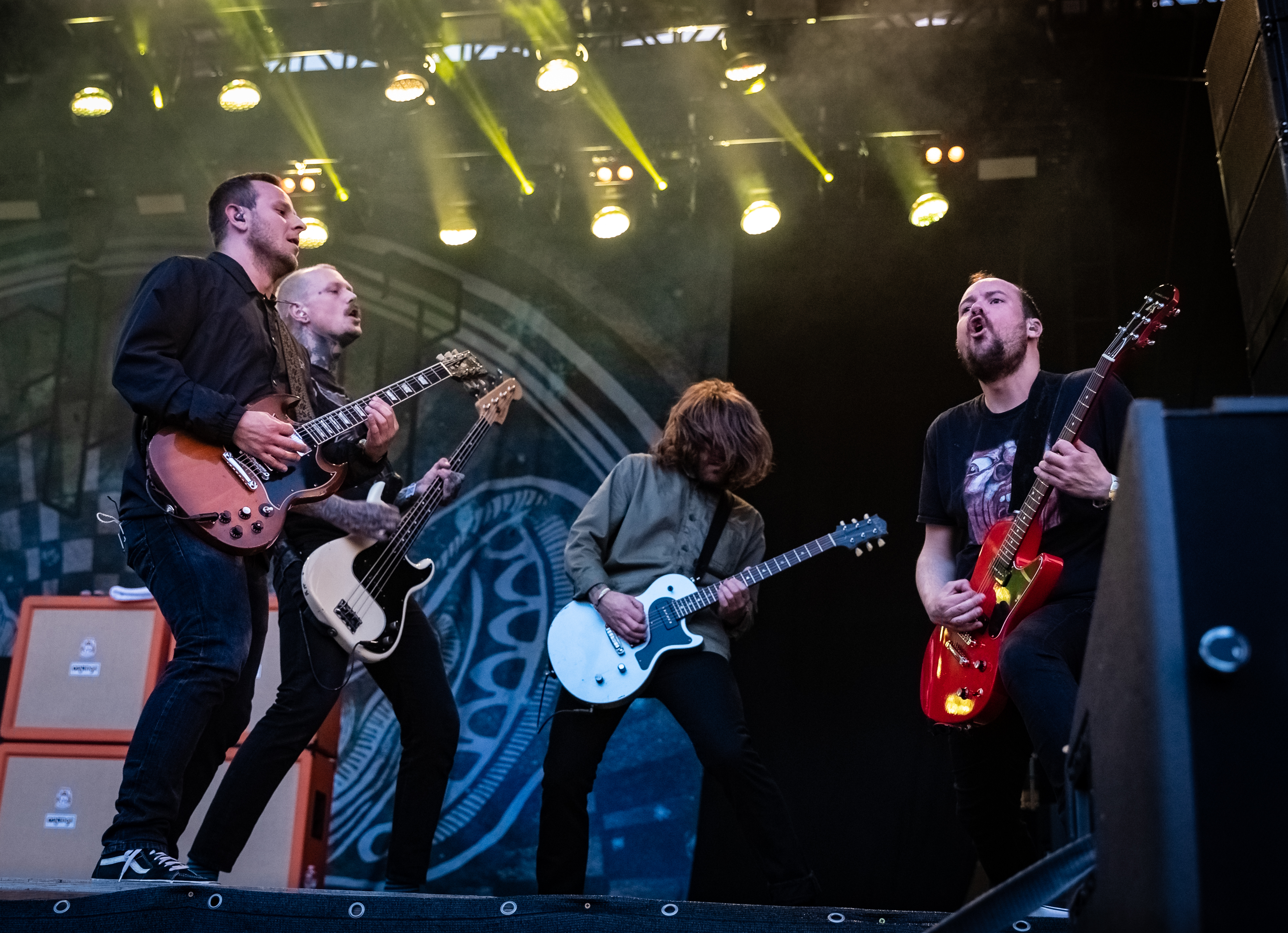 Kvelertak - Rock am Ring 2019